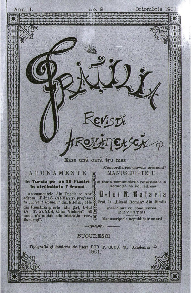 Fratilia 9 - October 1901